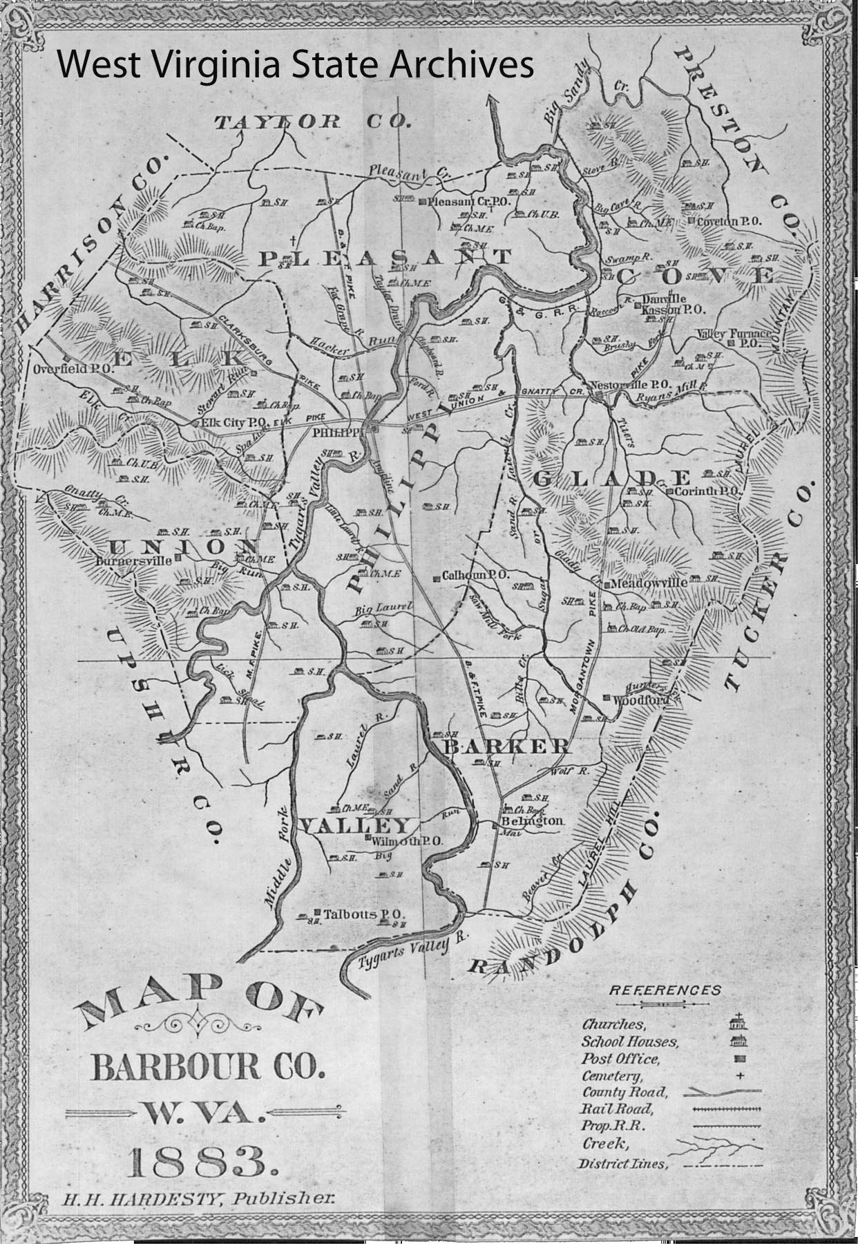 "Map of Barbour County, W.Va., 1883" from Hardesty's Historical and Geographical Encyclopedia; "Special Virginia Edition" (1883-84; 13 vols).